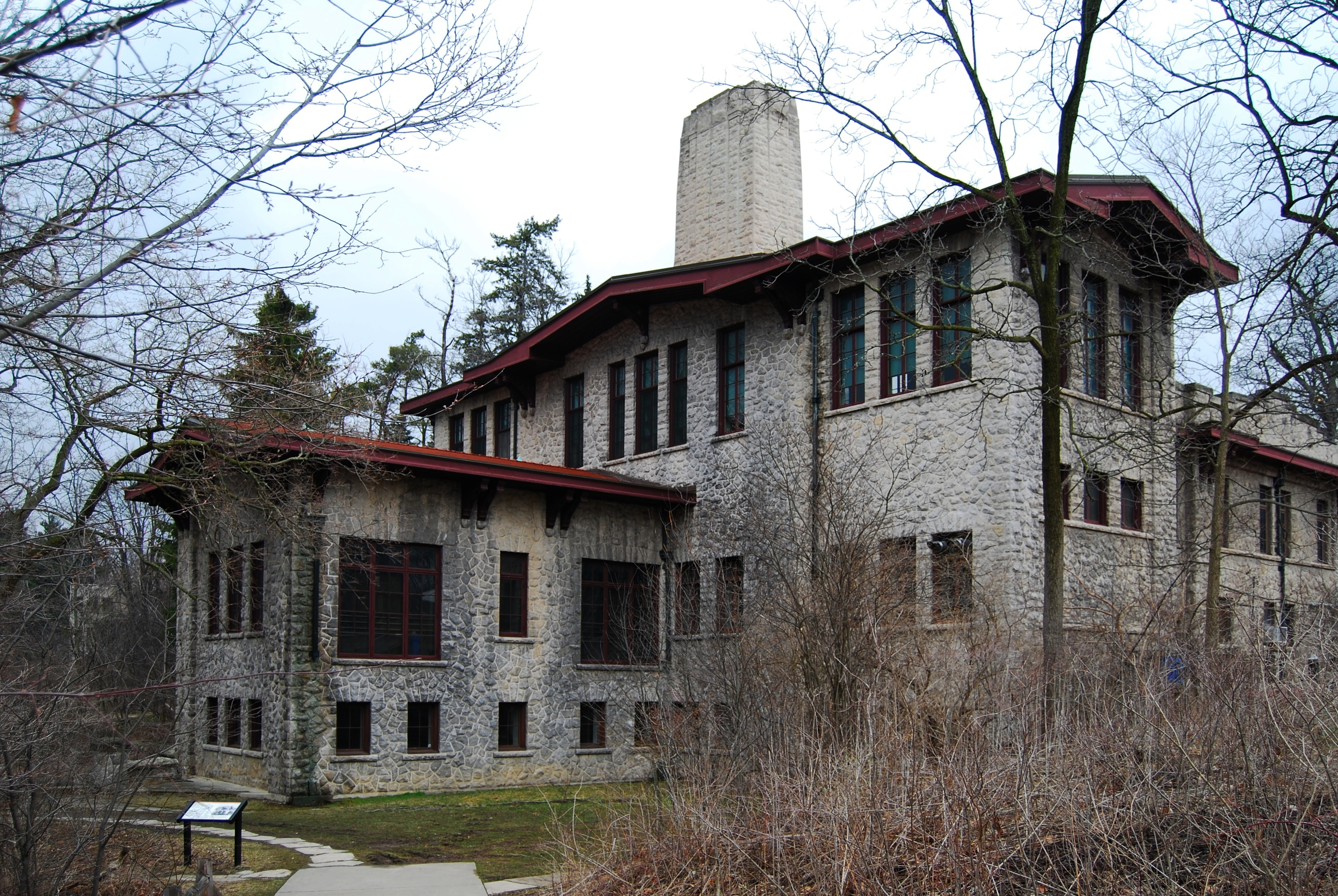 Fair Lane, Henry Ford Estate, Dearborn, Power House